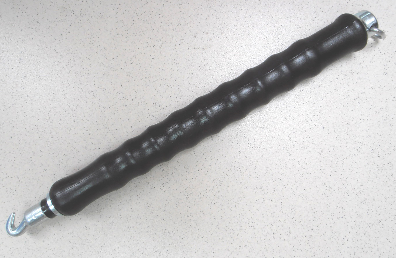 Drillbinder, hand tool to twist the closure (wire tie with a loop on both ends)